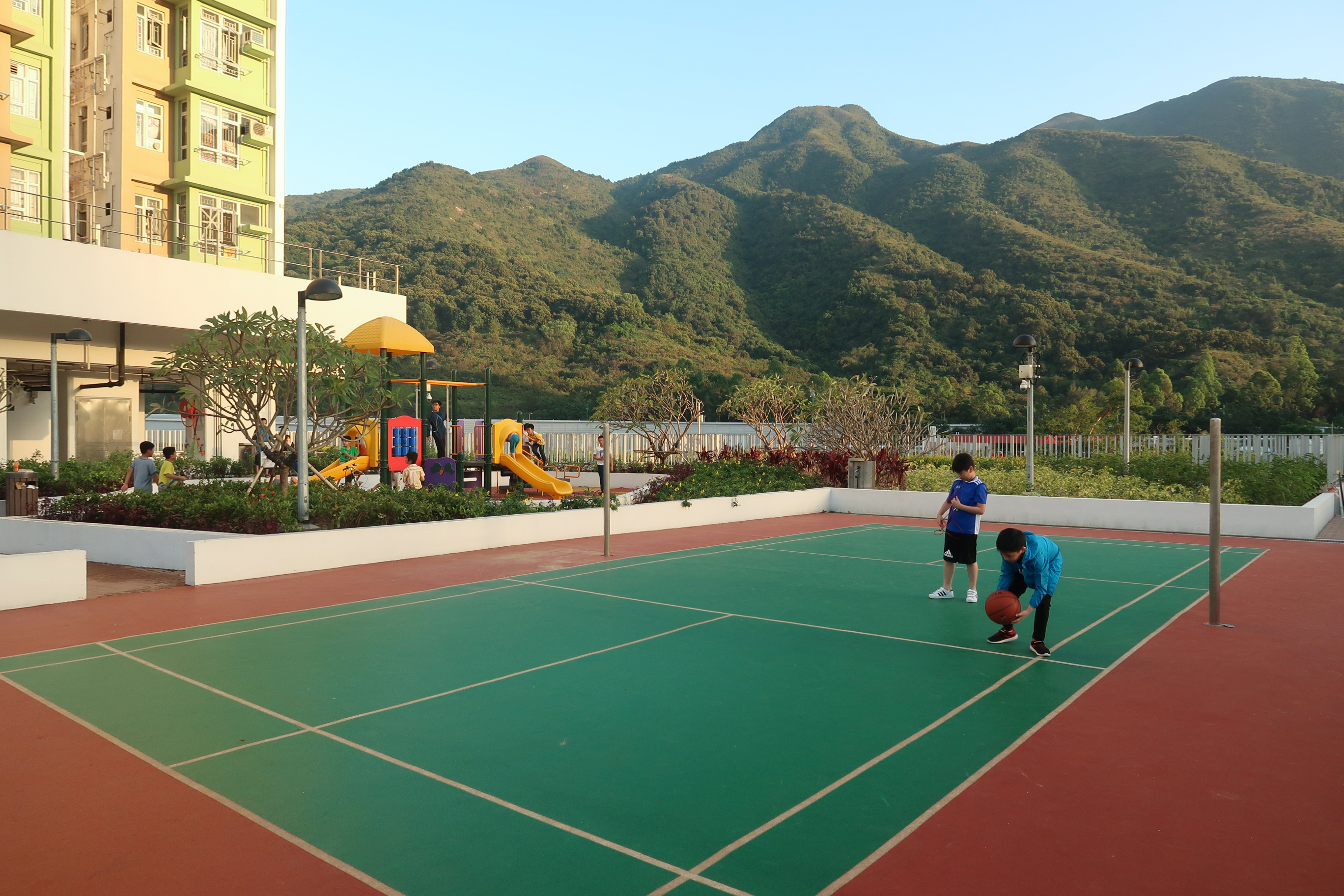 Ying Tung Estate Badminton Court